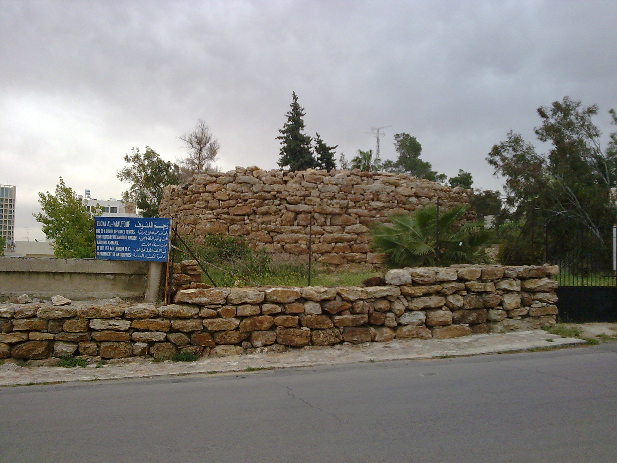 The ruins of Rujm Al-Malfouf. Self made, taken April 2009.